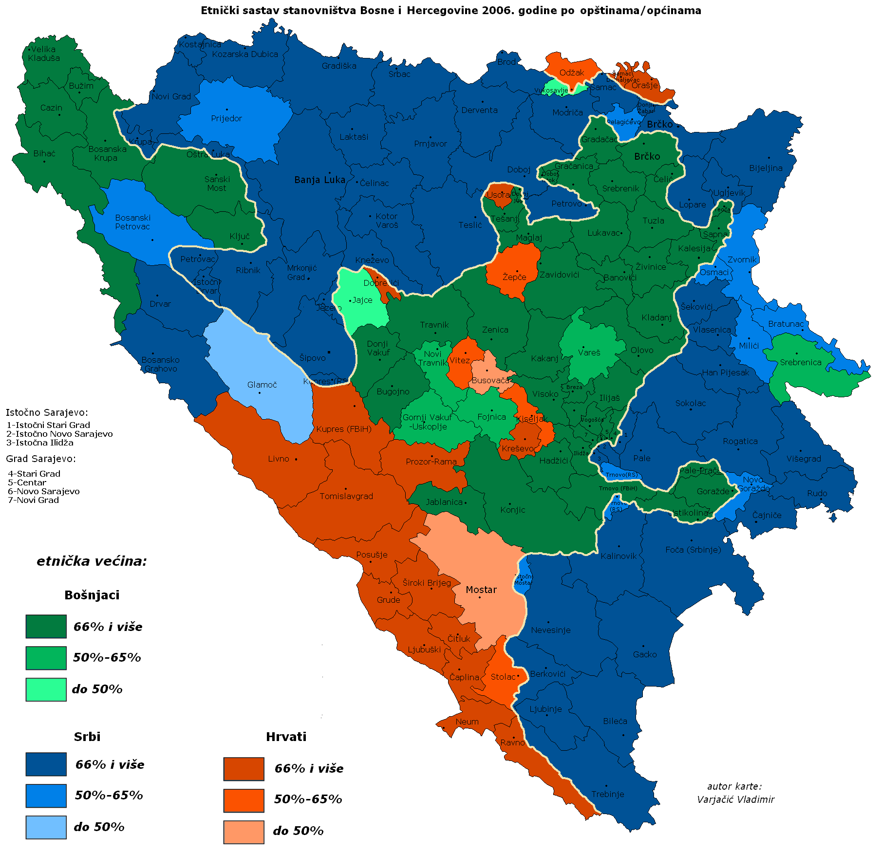 This is an ethnic map of Bosnia and Herzegovina, made with the controversial data which was released on June 30, 2016.